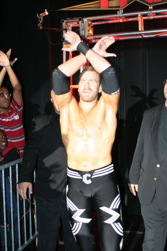 Reso in September 2008 at a TNA live event.